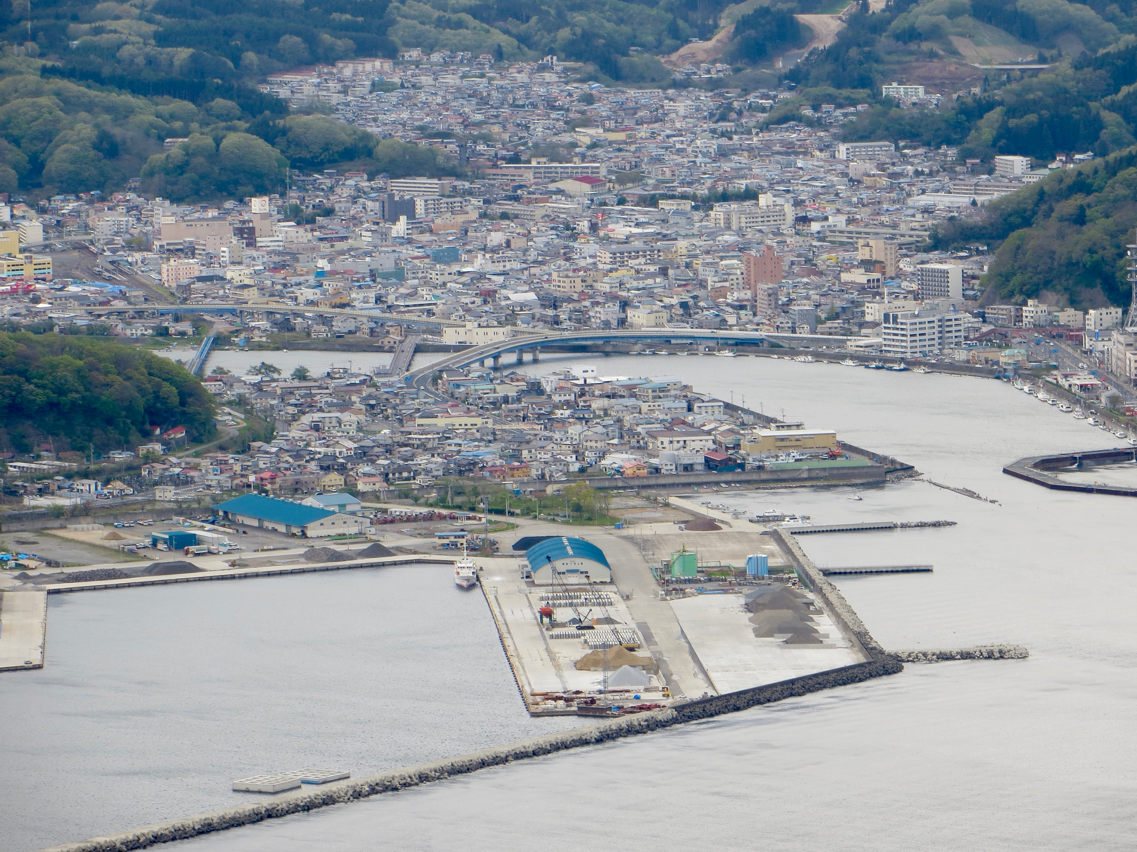 Downtown of Miyako city from Mount Gassan.